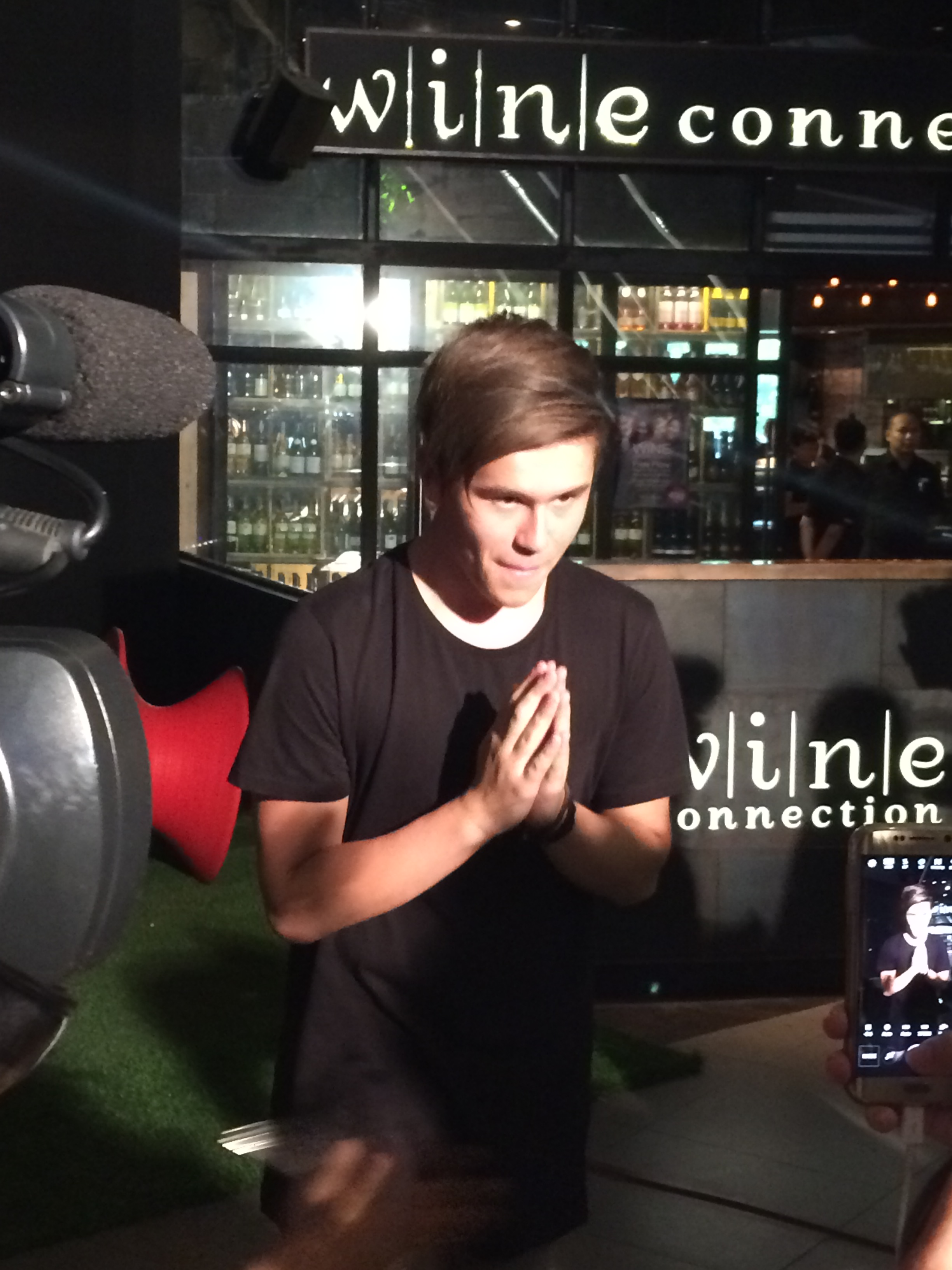 Jai Waetford at The Groove.